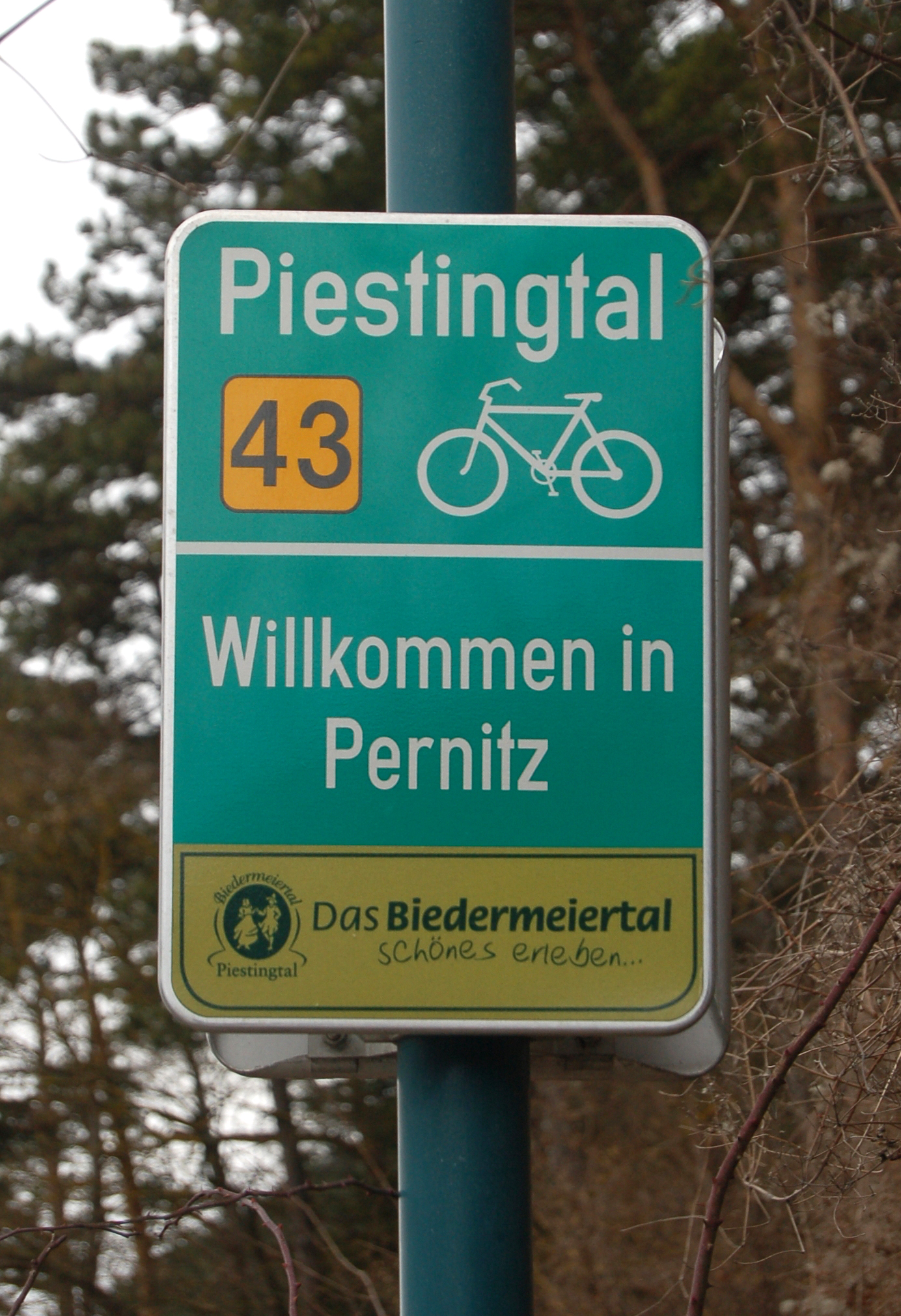 A sign marking the Biedermeier-Radweg in the valley of the Piesting, Lower Austria.